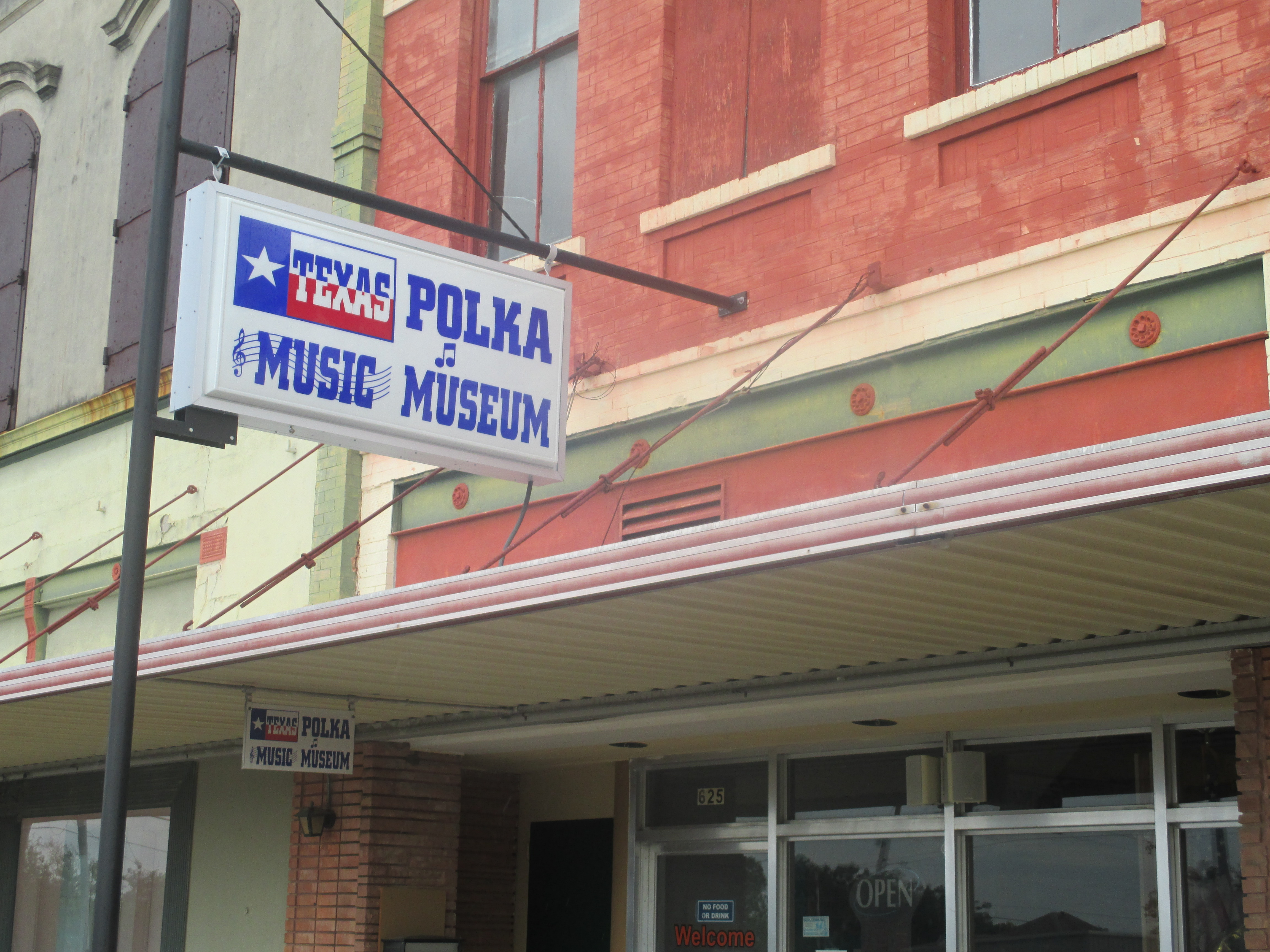 I took photo of Texas Polka Museum in Schulenburg IMG_8217.JPG, with Canon camera